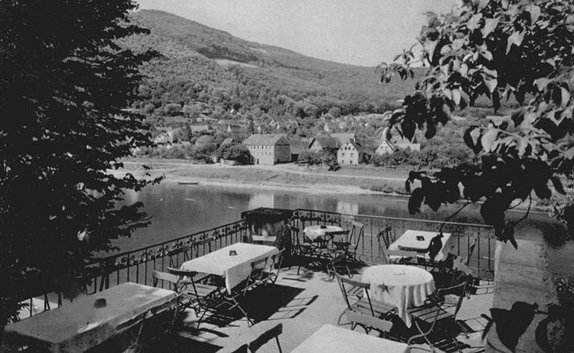 Greek wine tavern "City of Athens" in Neckargemünd, 1910